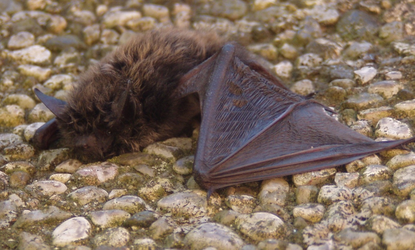 A young Myotis (mystacinus or brandtii)/Bartfledermaus, most probably M. mystacinus; photo taken in Carinthia.